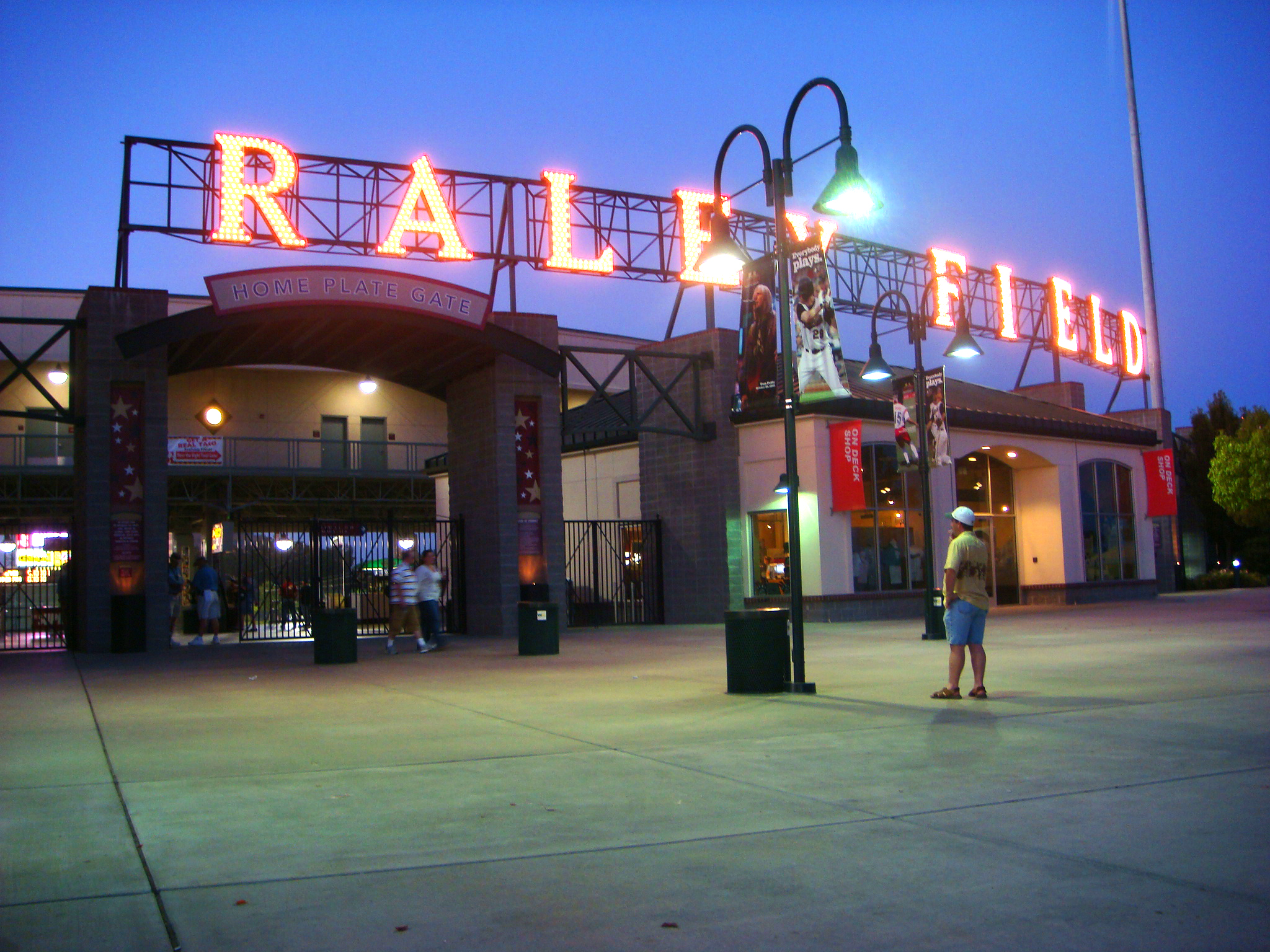 Raley Field at night. Stepping outside during the finale part of the game.